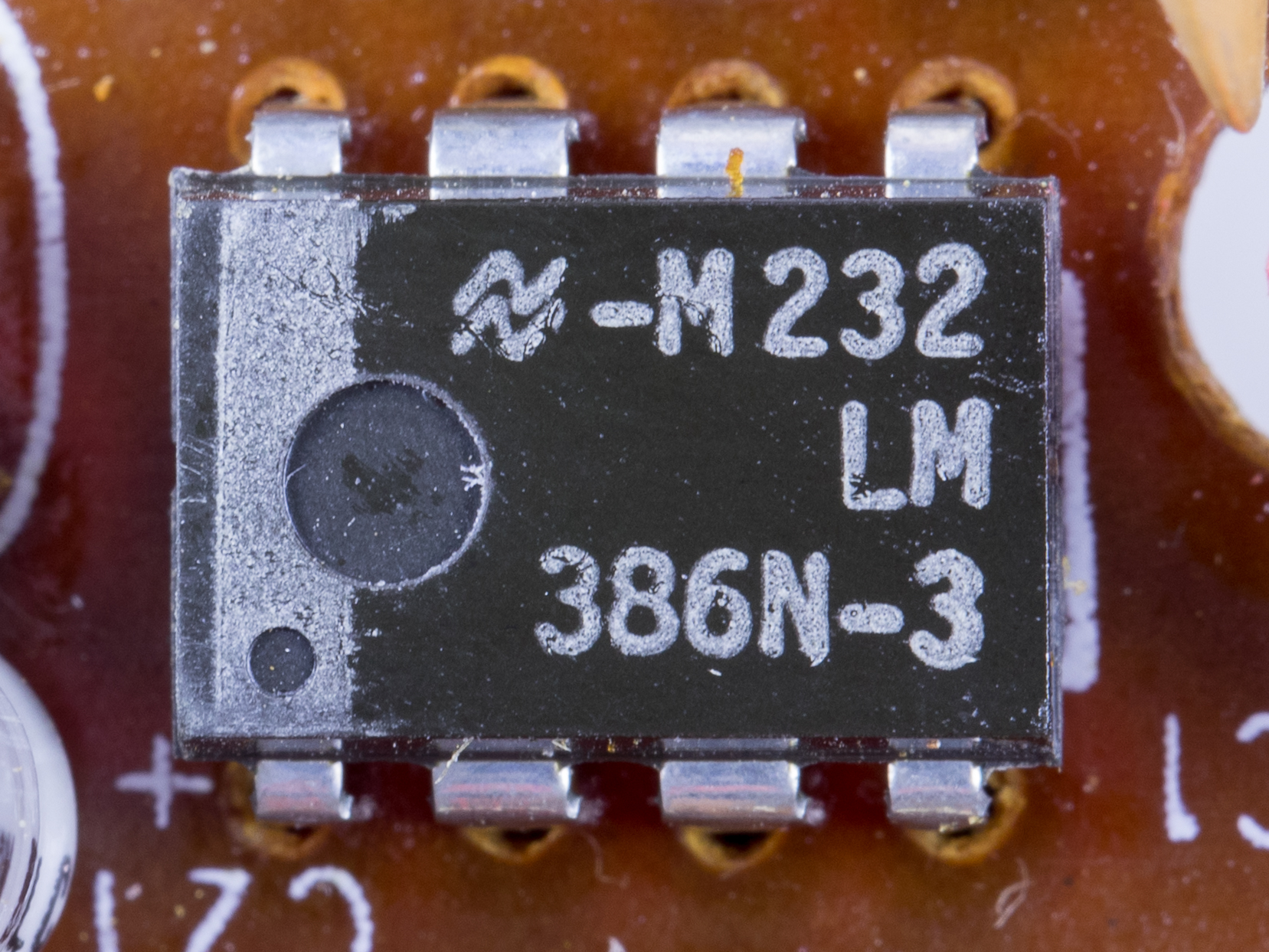 micro-electric T3000 - board - National Semiconductor LM386N - Low Voltage Audio Power Amplifier